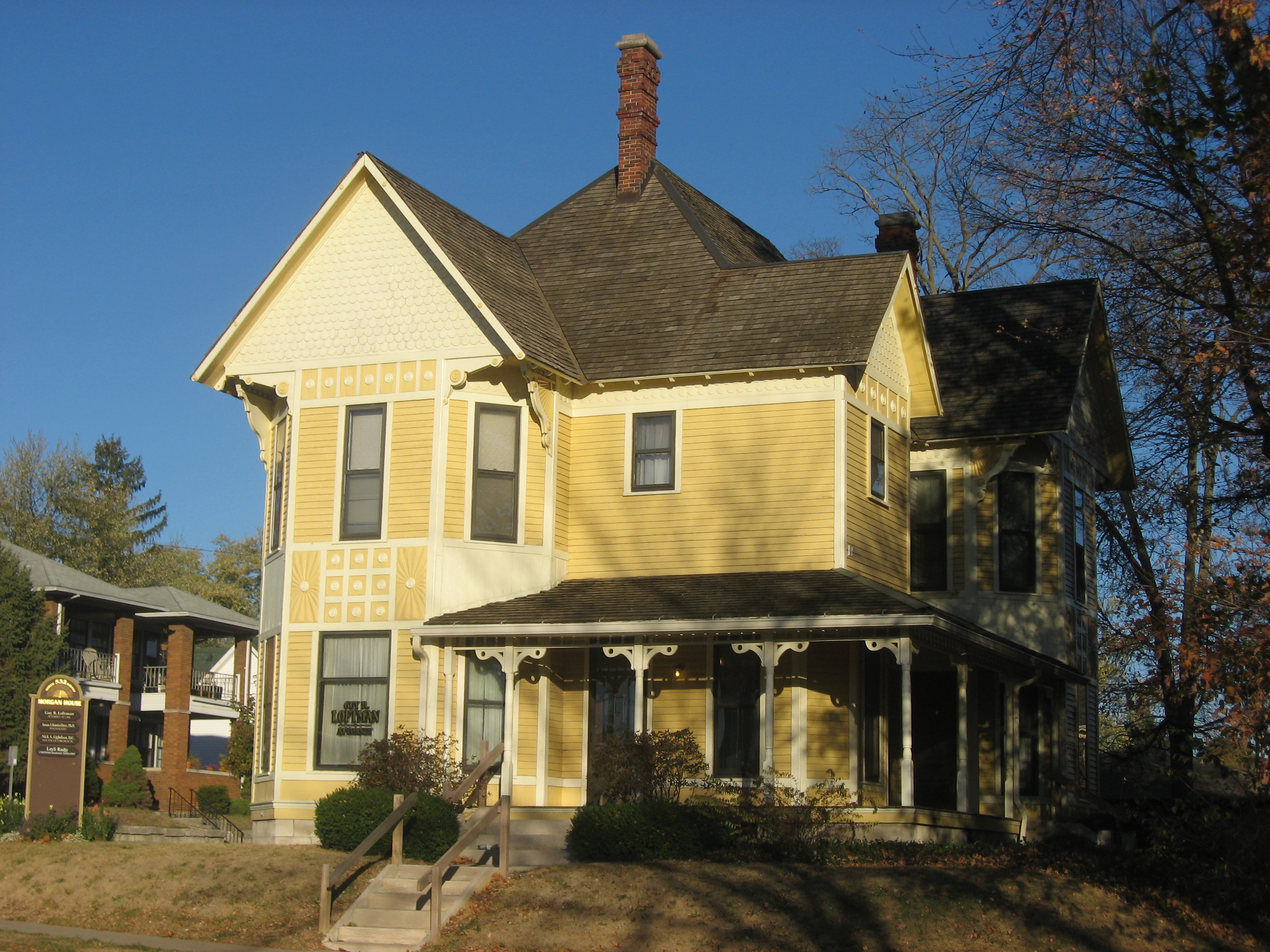 Front of the Morgan House, located at 532 N. Walnut Street in downtown Bloomington, Indiana, United States. Built in 1890, it is listed on the National Register of Historic Places.